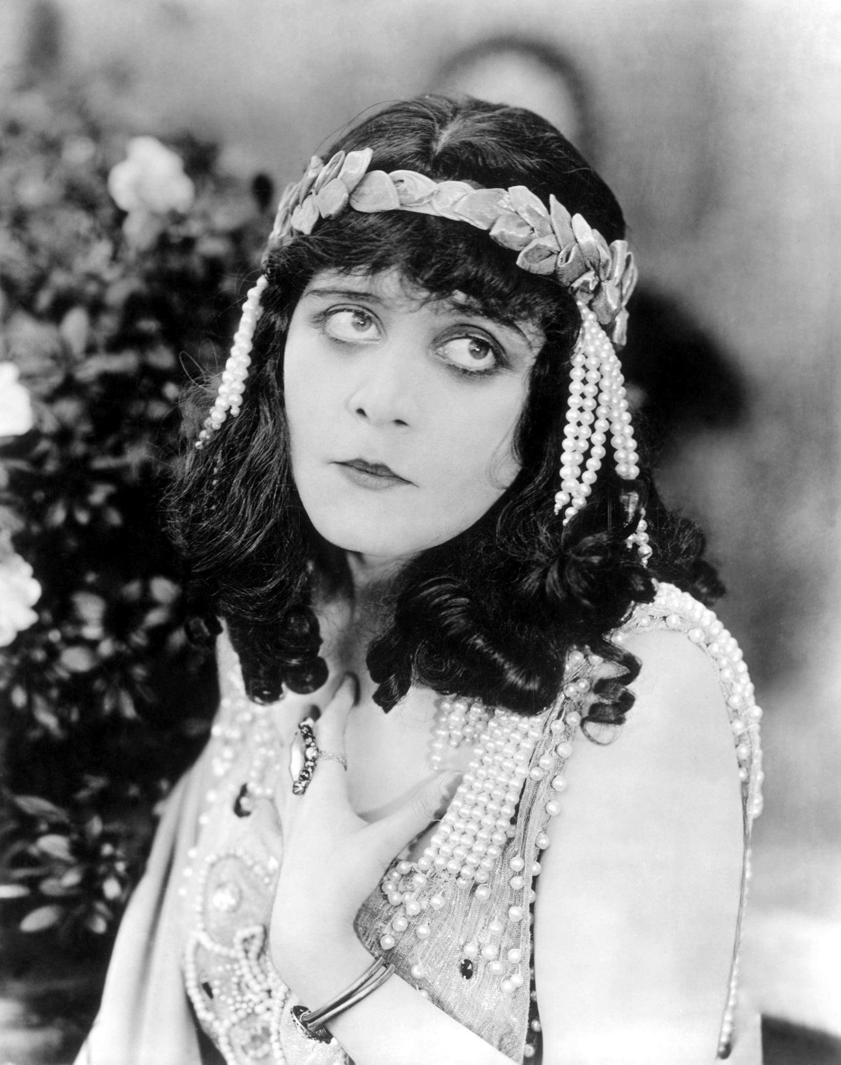 American actress Theda Bara in Salomé (1918), a film now considered lost.